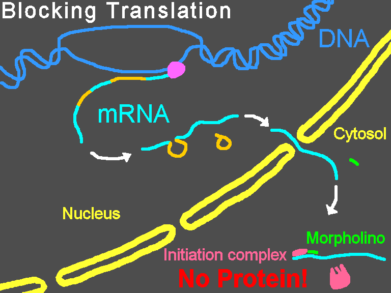 This image was created by Jon D. Moulton of Gene Tools, LLC and is made available under the GNU Free Documentation License .